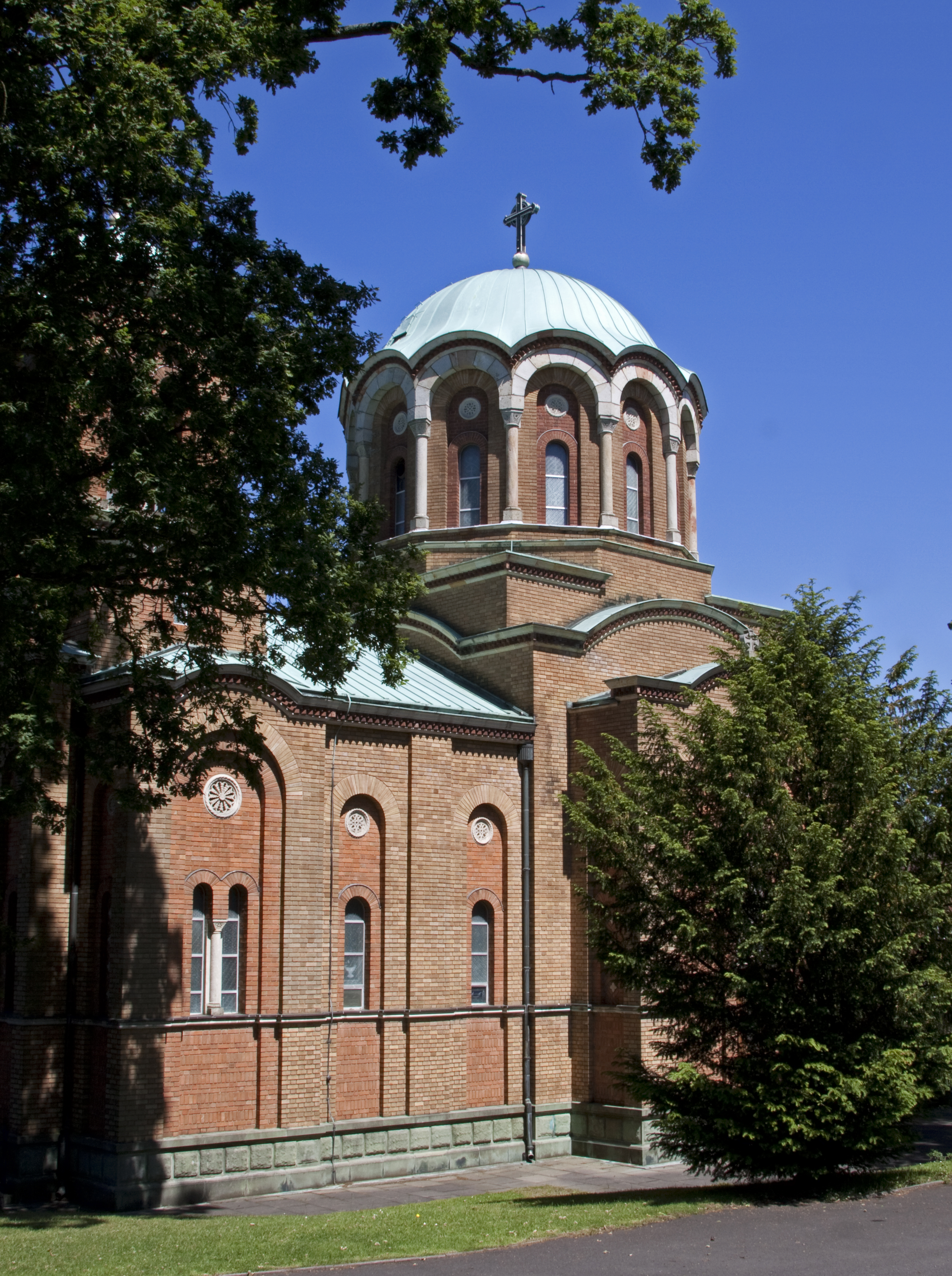 Serbian Orthodox Church of St Lazar built in traditional 14th century Byzantine form by Yugoslavian architect Dr Dragomir Tadic and Bournville Village Trust. It is a replica of a church in Serbia, uing stone from the same quarries.